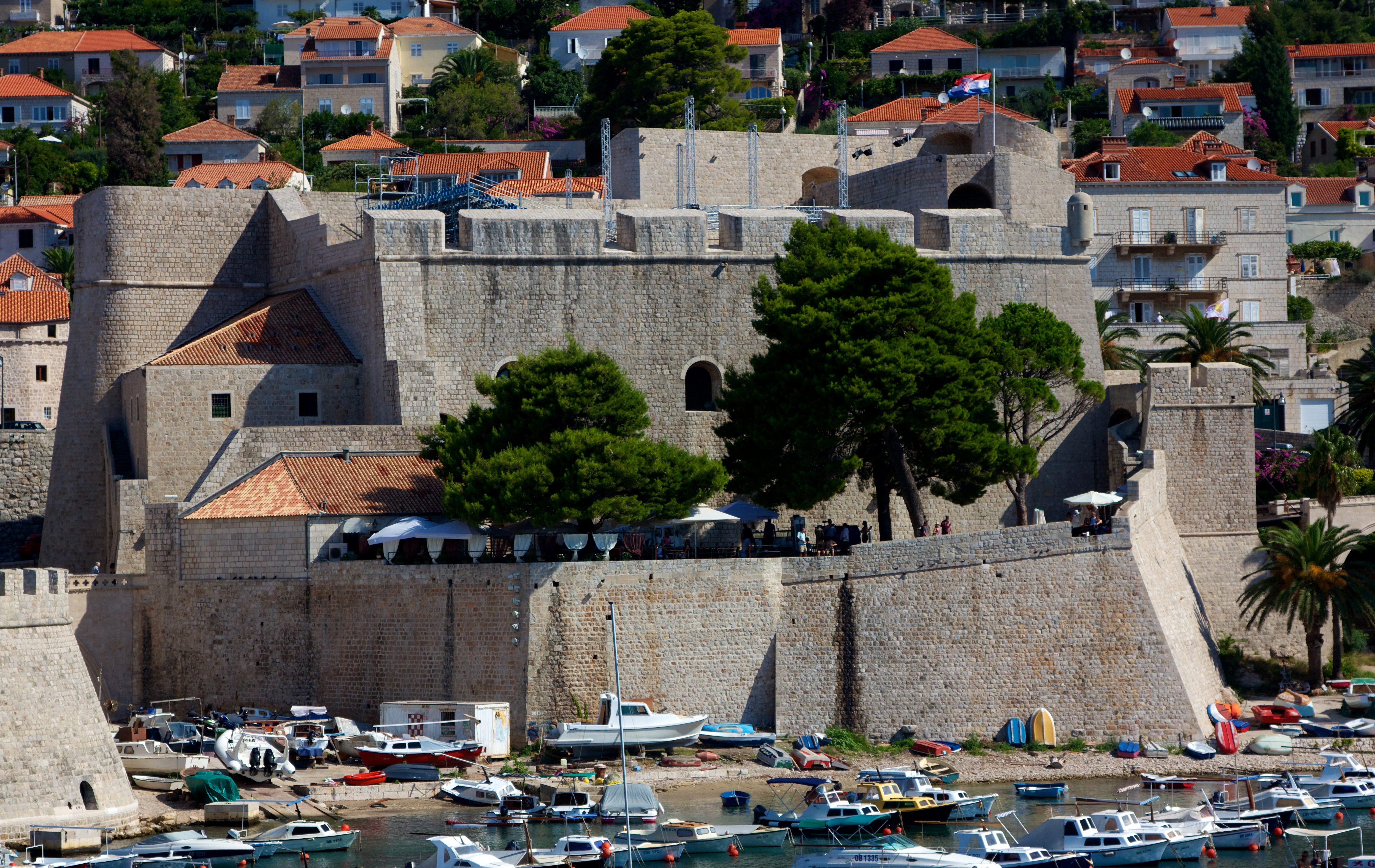 View from the walls and across the harbor to fort Revelin, Dubrovnik.